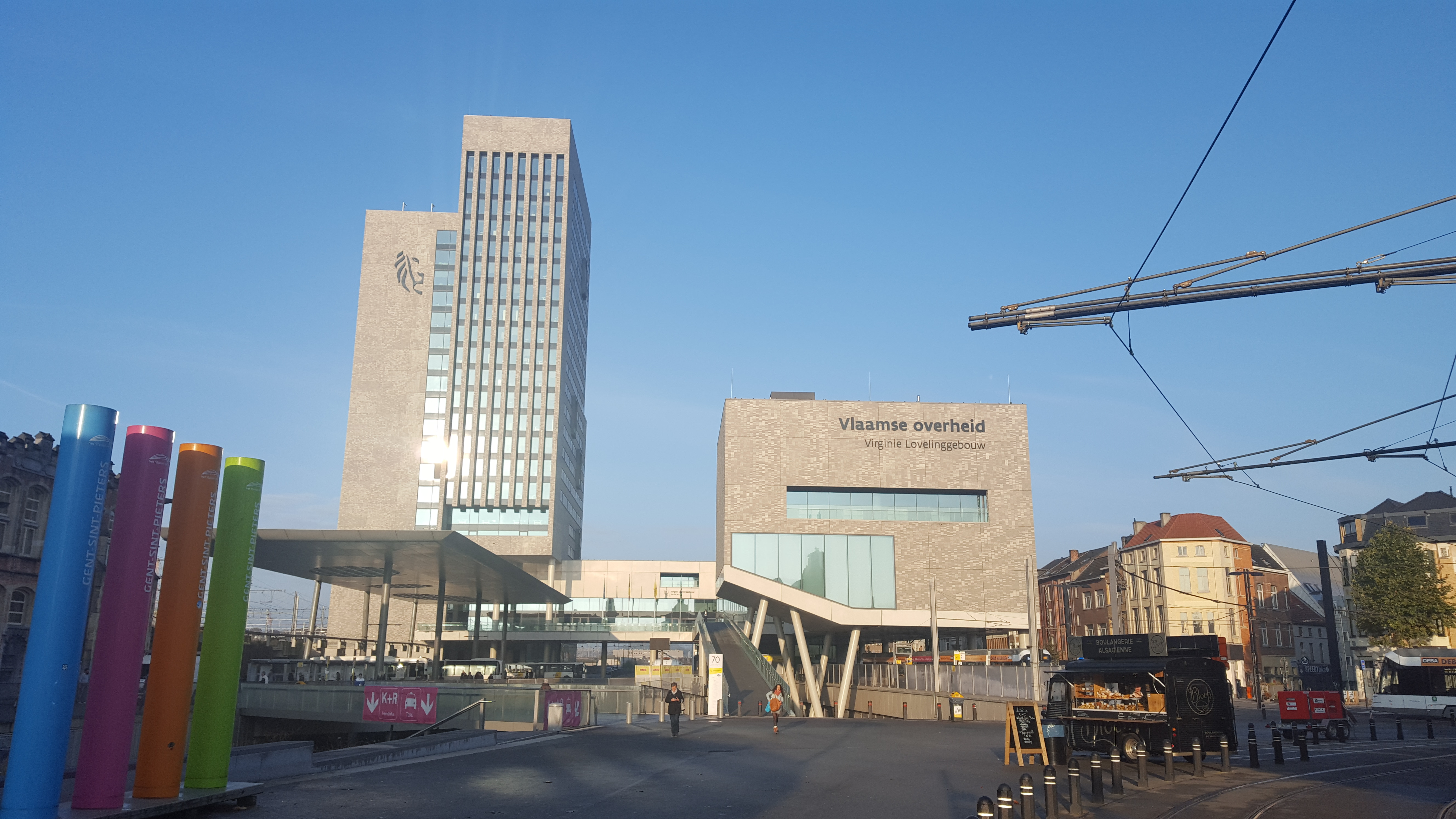 Virginie Lovelinggebouw, tower building in Ghent, Belgium